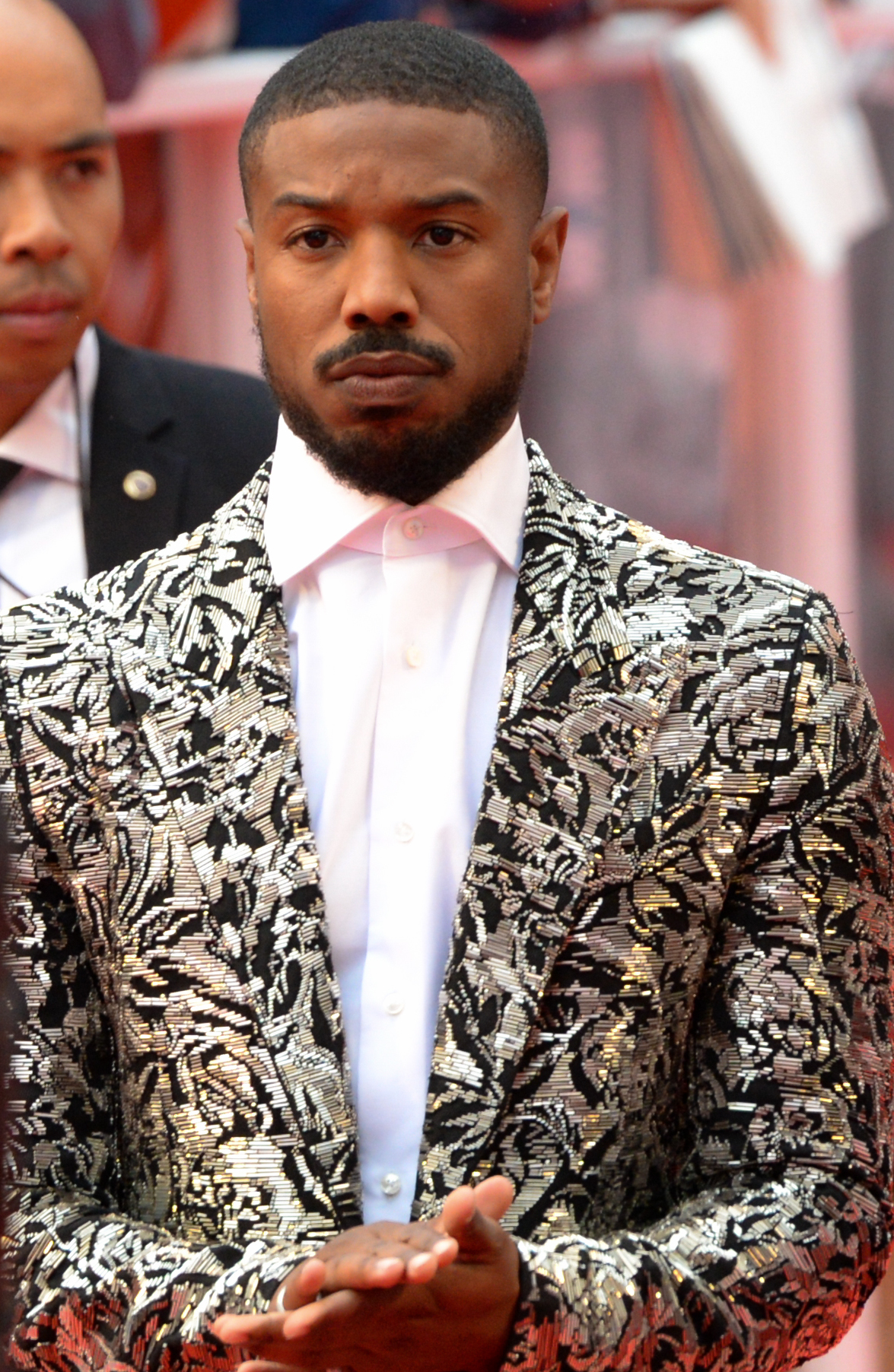 Just Mercy shadows world-renowned civil rights defense attorney Bryan Stevenson as he recounts his experiences and details the case of a condemned death row prisoner whom he fought to free.